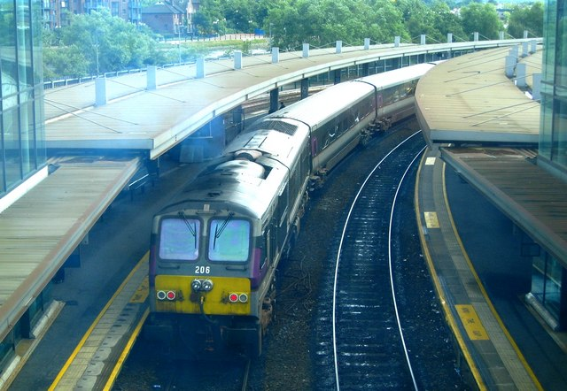 Train Smoke 16:10 Enterprise service to Dublin. Locomotive 206 - Abhainn na Life (River Liffey) departs Belfast Central Station in a cloud of diesel smoke.